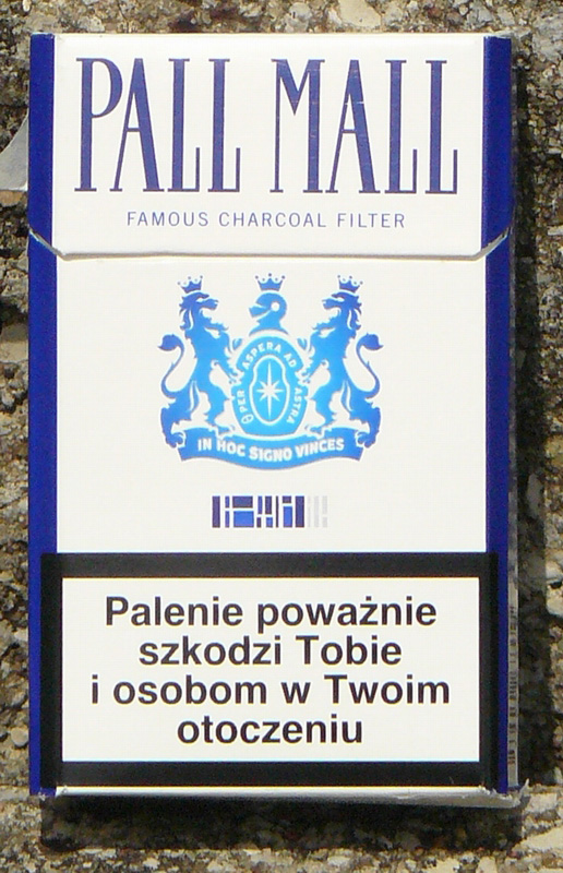 Pall Mall cigarettes package (polish)